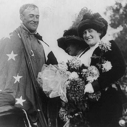 Cal Rodgers draped with U.S. flag was met with flowers upon arrival in Pasadena.